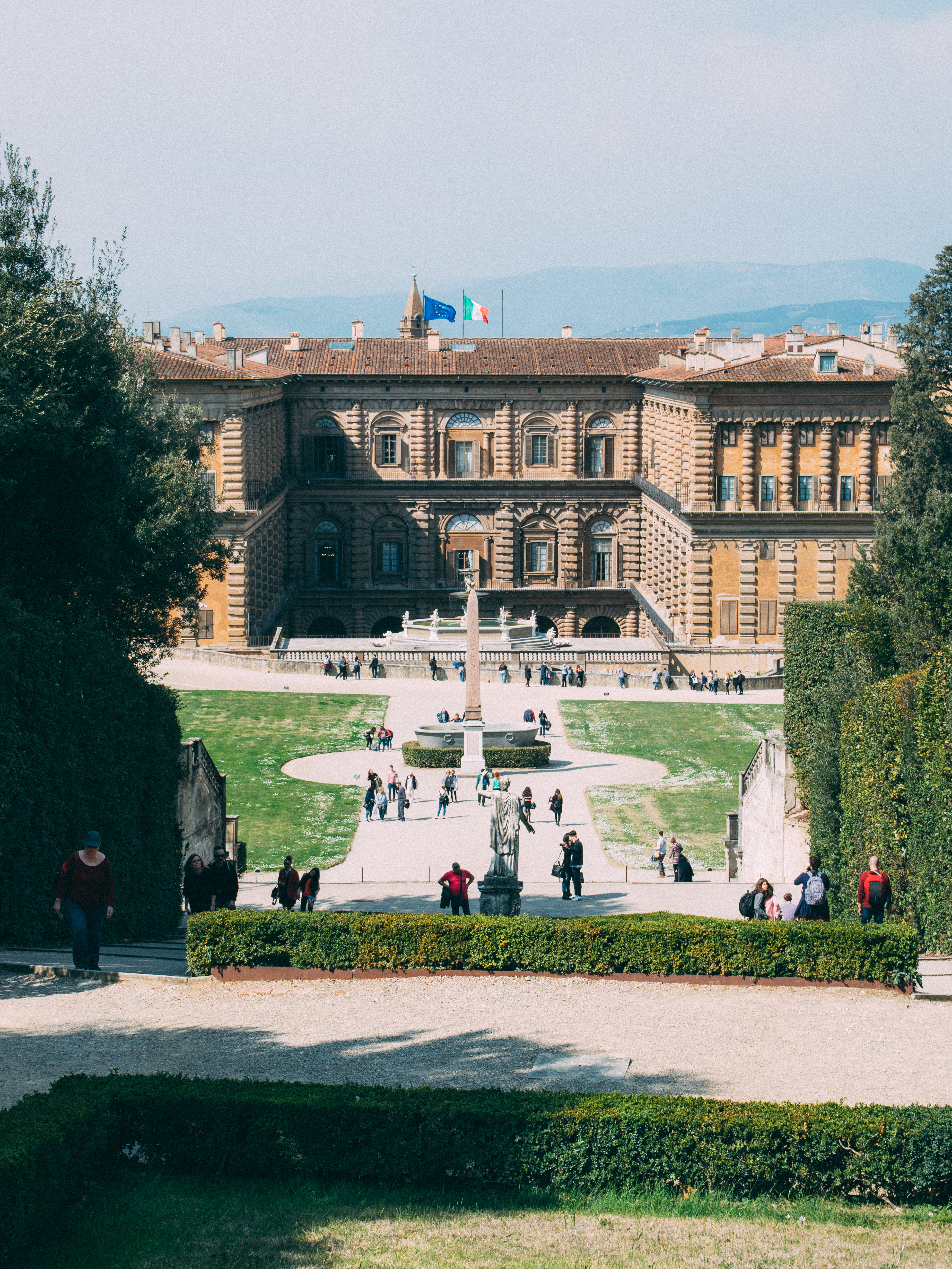 The Palazzo Pitti in Florence.